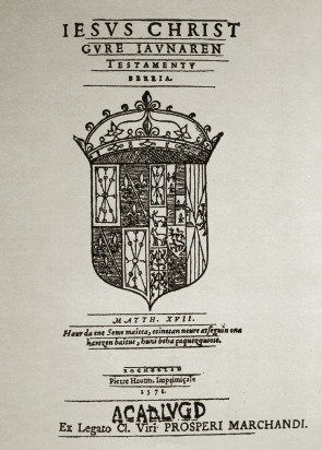 Leizarraga's Basque Bible